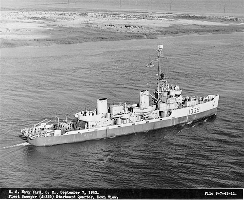 7 September 1943 Navy Yard, Charleston, SC Starboard quarter view U.S. Navy photo